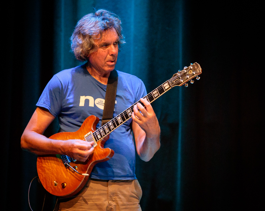 John Etheridge with Soft Machine at Cosmopolite. The concert took place on 06. September 2018 in Oslo. Lineup: John Etheridge (guitar) Theo Travis (tenor saxophone and keyboard) Roy Babbington (bass guitar) John Marshall (drums)